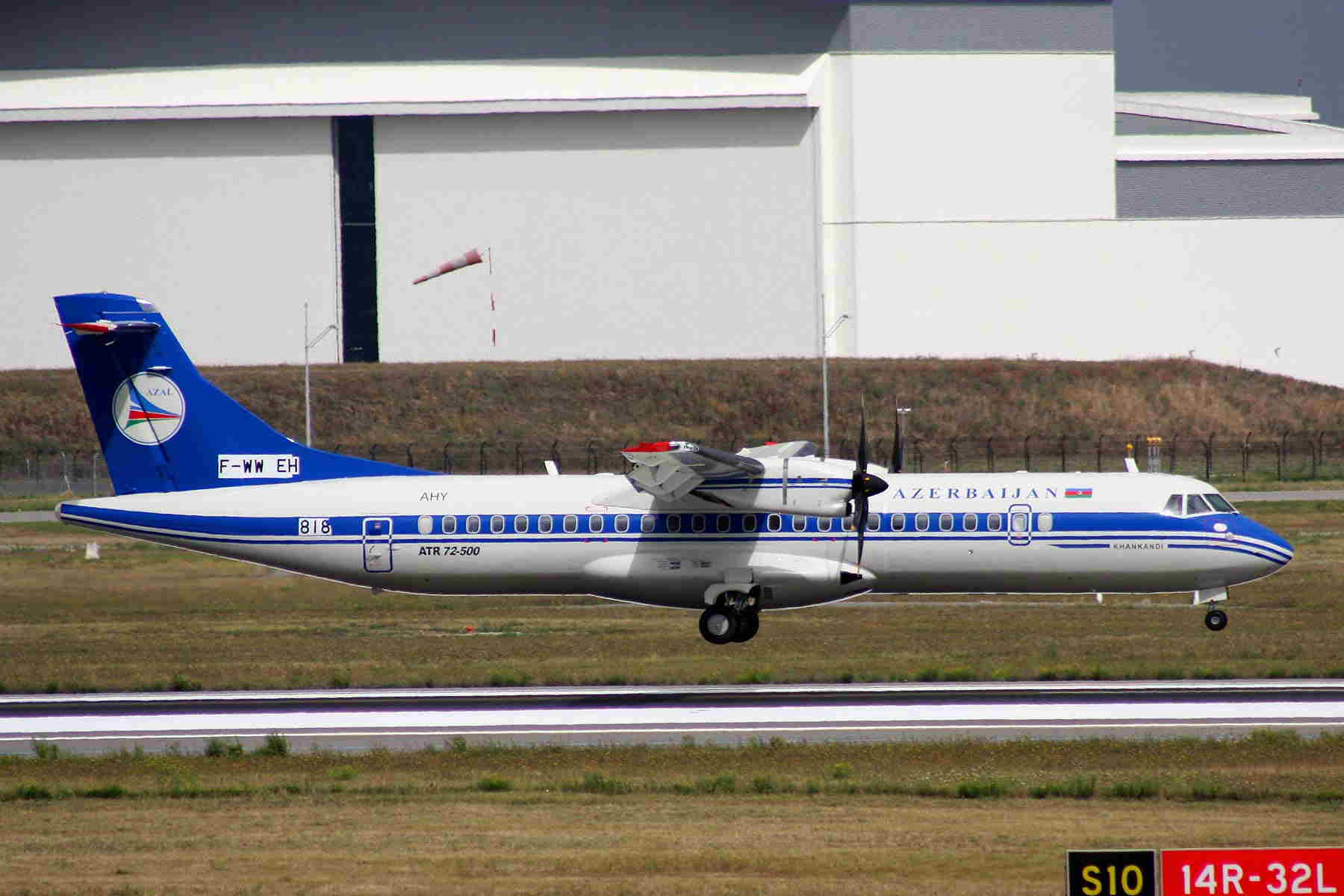 F-WWEH(4K-AZ67) ATR.72.212A(500) Azerbaijan TLS